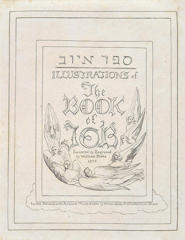 Title page of William Blake's Illustrations of the Book of Job